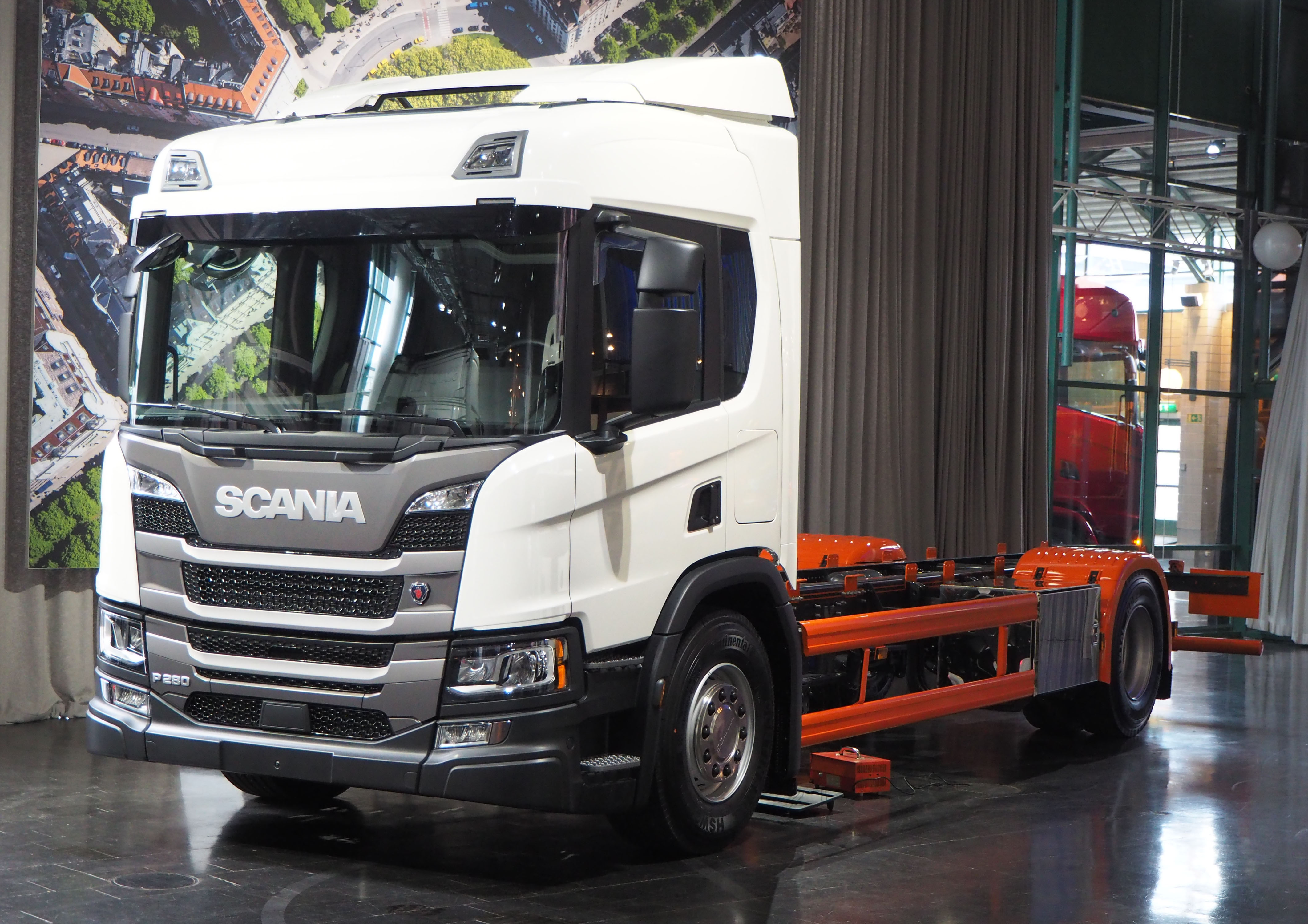 2018 Scania P280